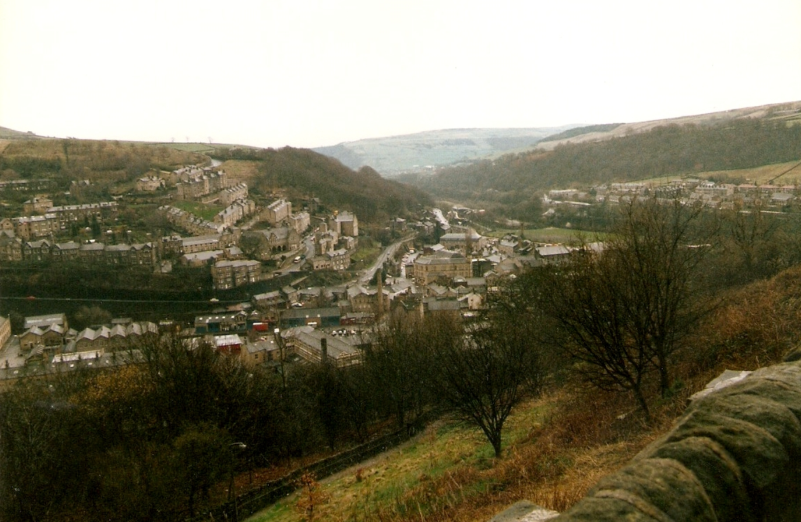 Hebden Bridge, Yorkshire, seen nestling in the Calder Valley